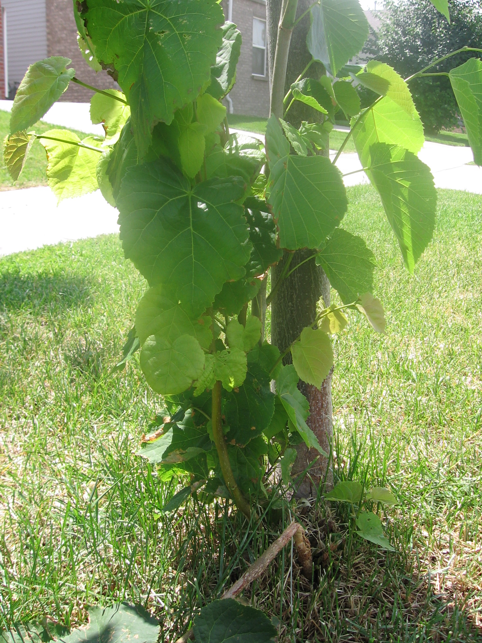 Sucker (basal shoot) growing from the base of a young tree